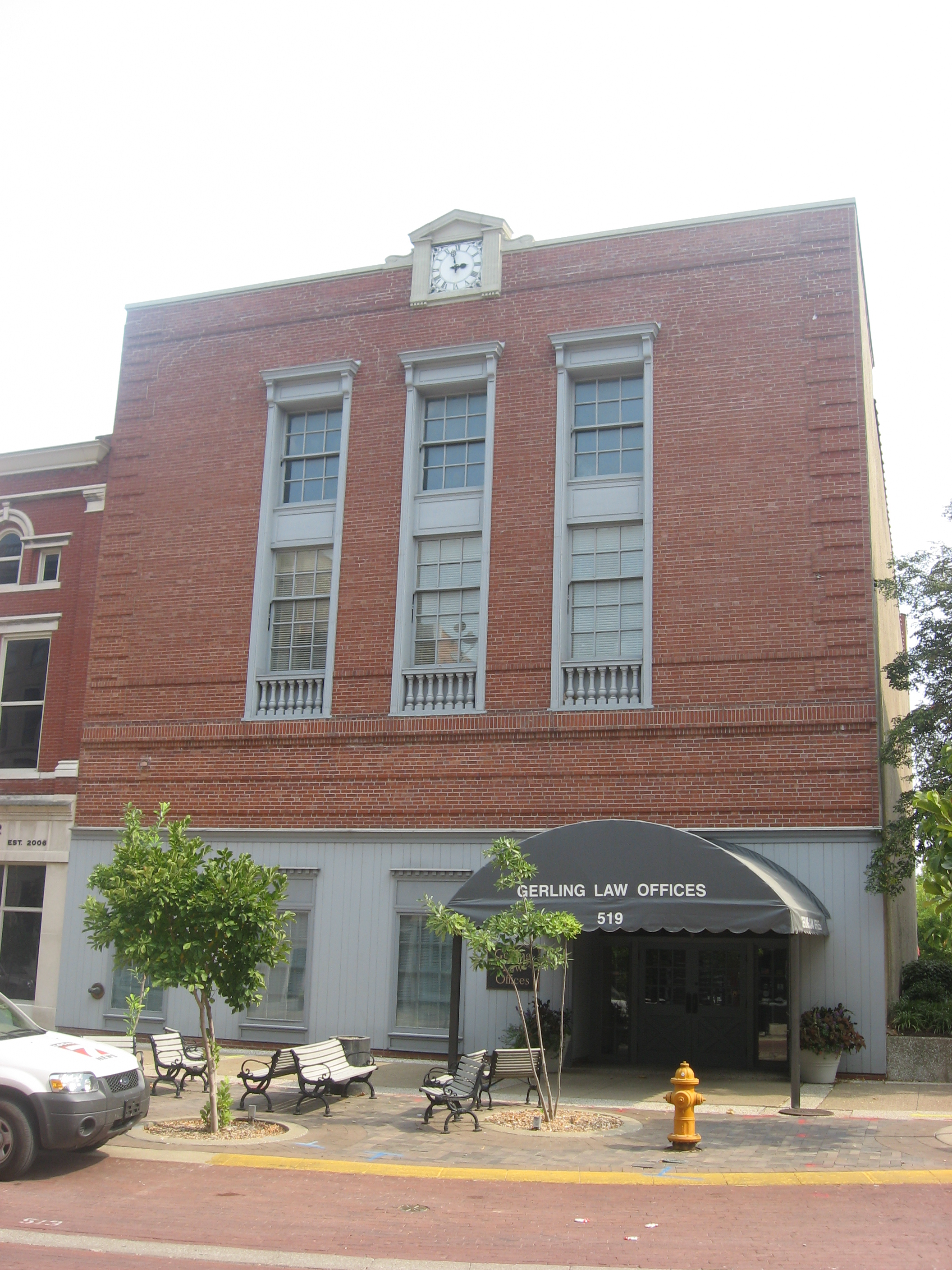 Front of the Montgomery Ward Building, located at 517-519 Main Street in Evansville, Indiana, United States. Built in 1933, it is listed on the National Register of Historic Places.